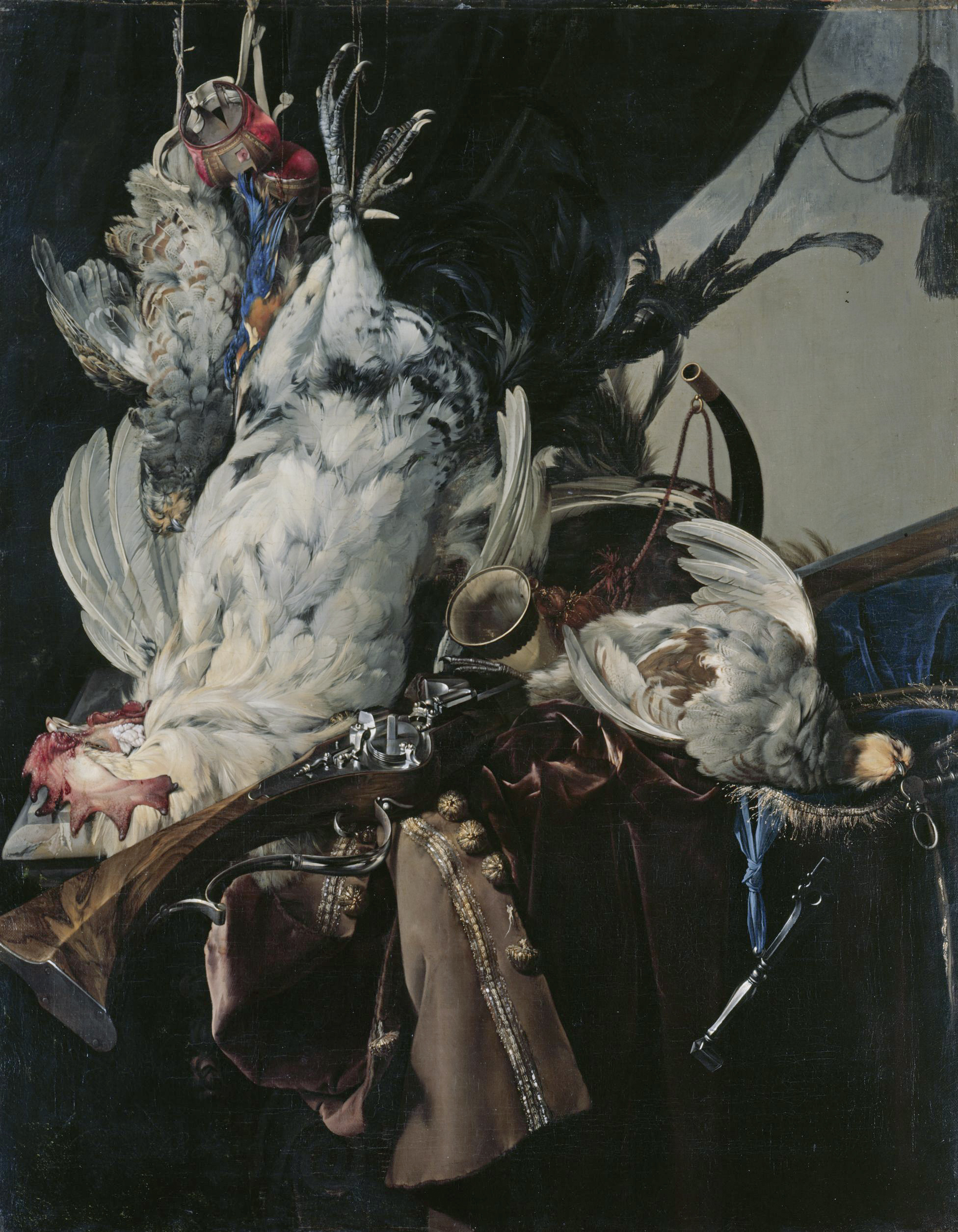 Stilleben mit Vögeln und Jagdgeräten oil on canvas 86,5 x 68 cm signed b.l.: G...lmo van Aelst 166 1660